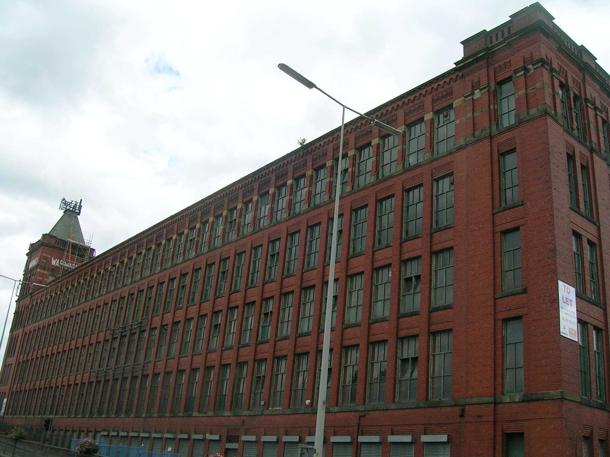 Warwick Mill on Oldham Road, in Middleton, Greater Manchester, England.